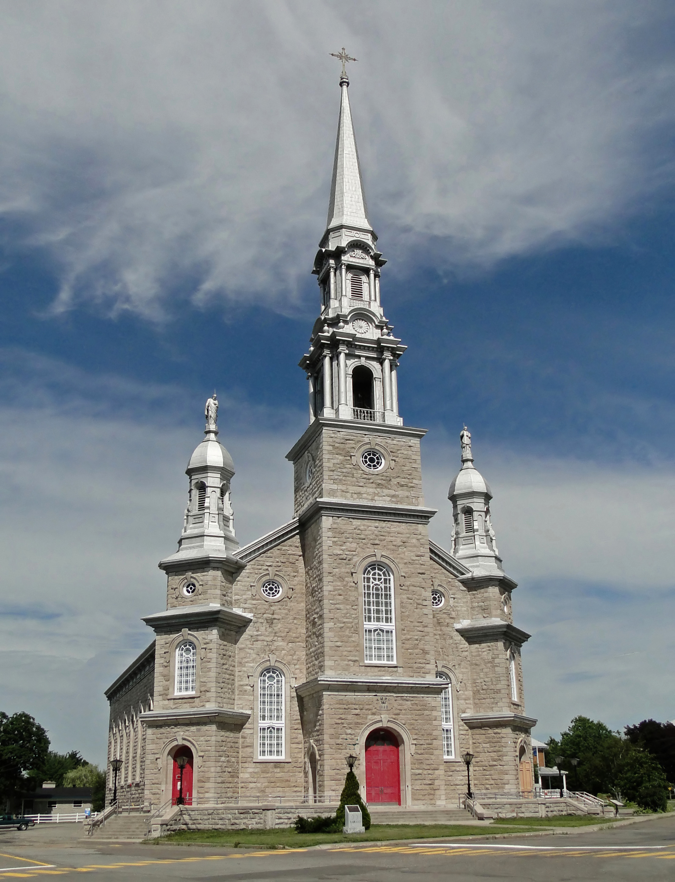 Saint-Ignace Church, Cap-Saint-Ignace, Province of Quebec, Canada